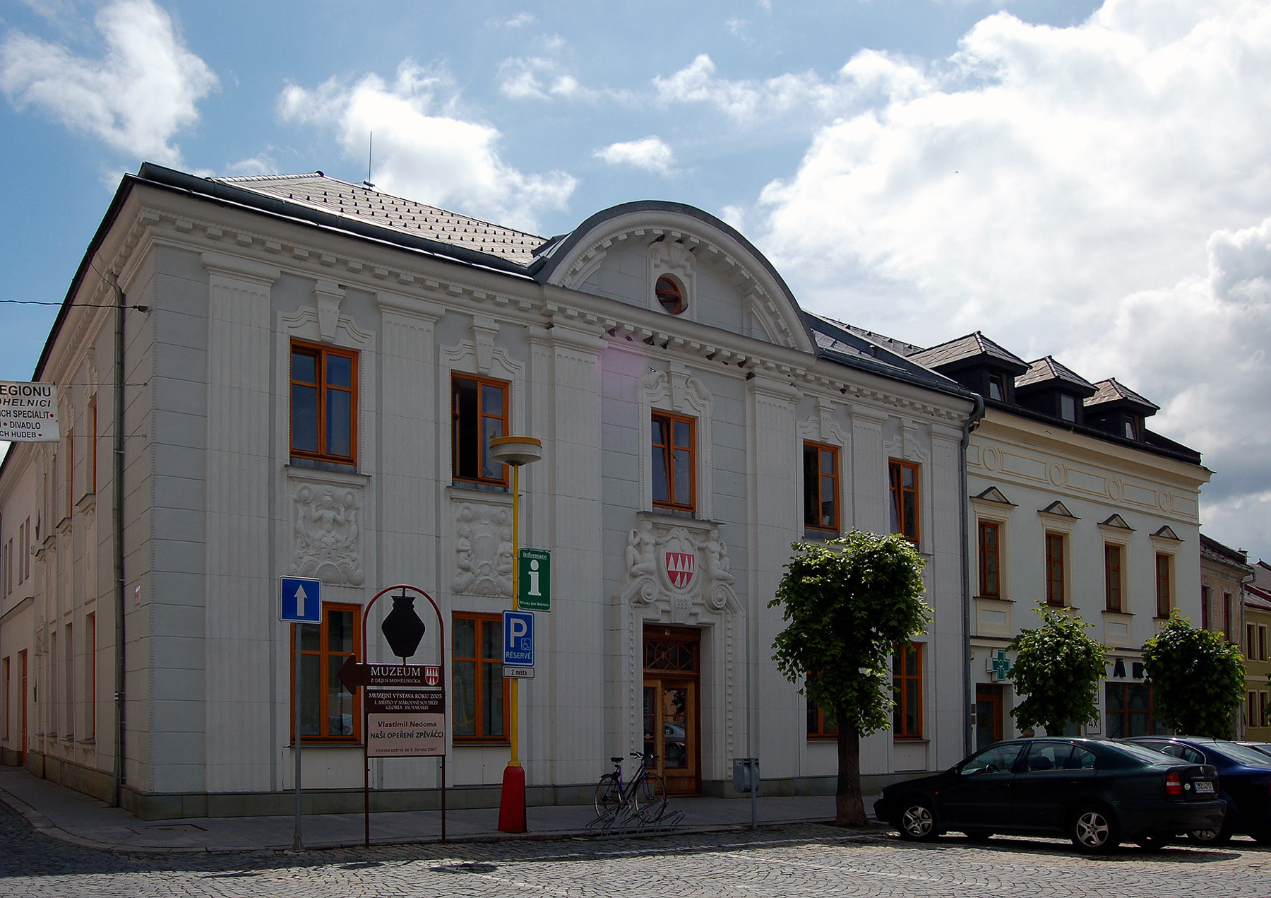 New Town Hall in eastern side of Freedom Square in Mohelnice, Šumperk District, Czech Republic